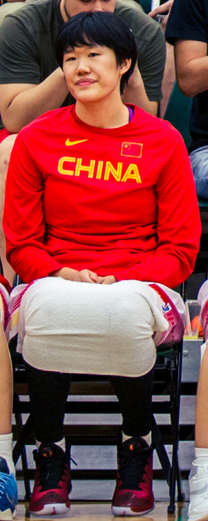 Ma Xueya sitting on the bench during the 2016 Edmonton Grads International Classic series